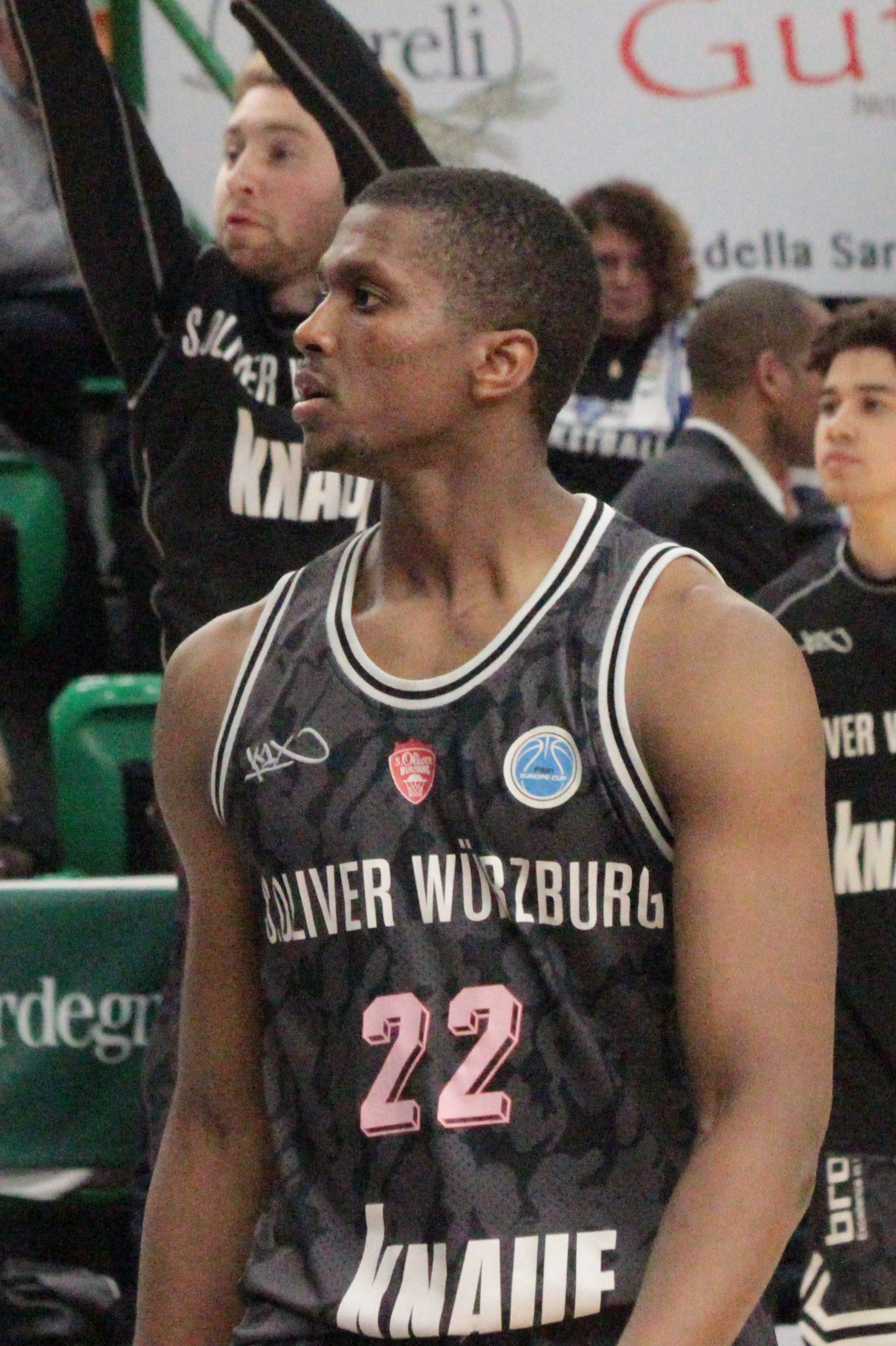 American basketball player Cameron Wells with S.Oliver Wurzburg uniform